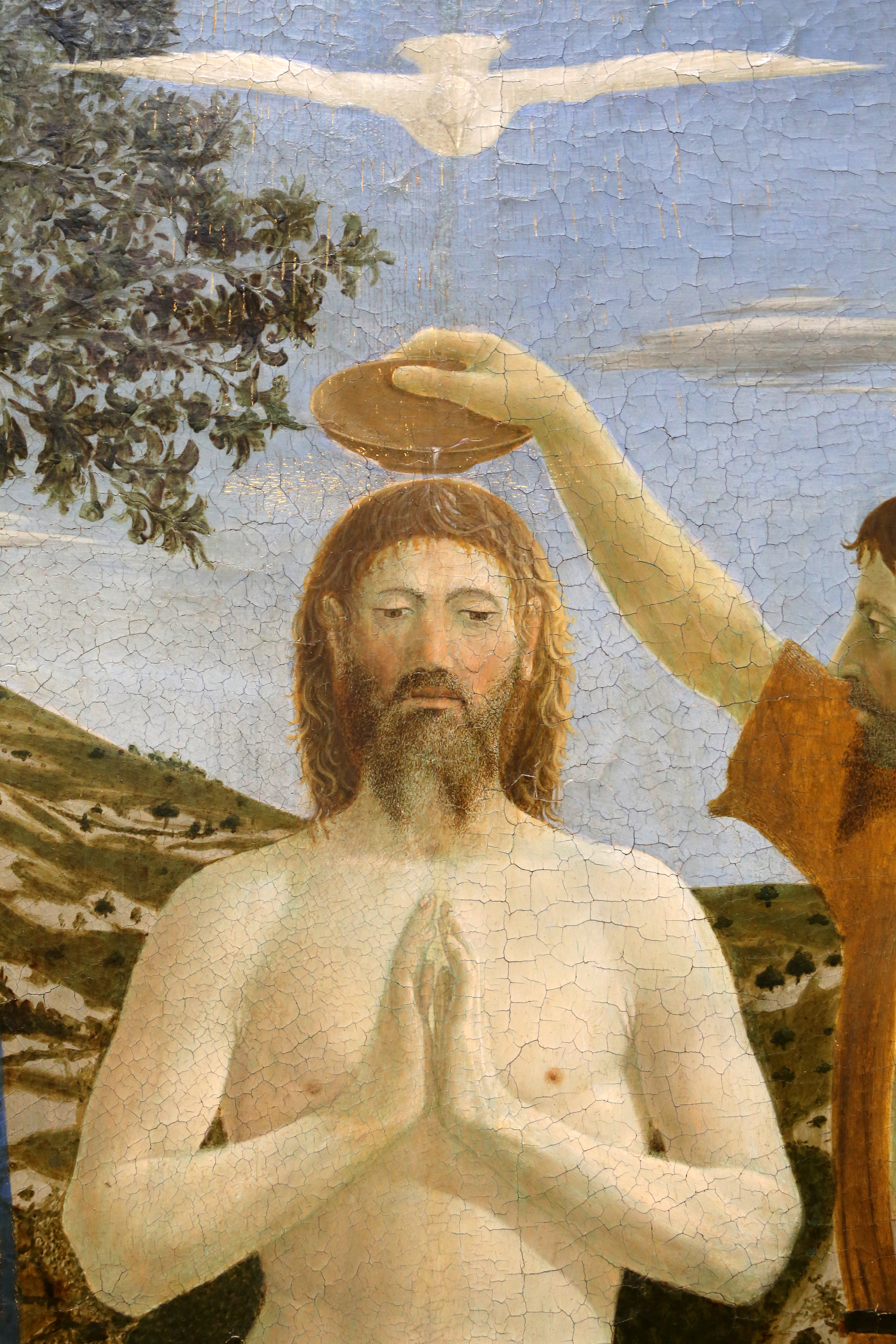 Baptism of Christ by Piero della Francesca